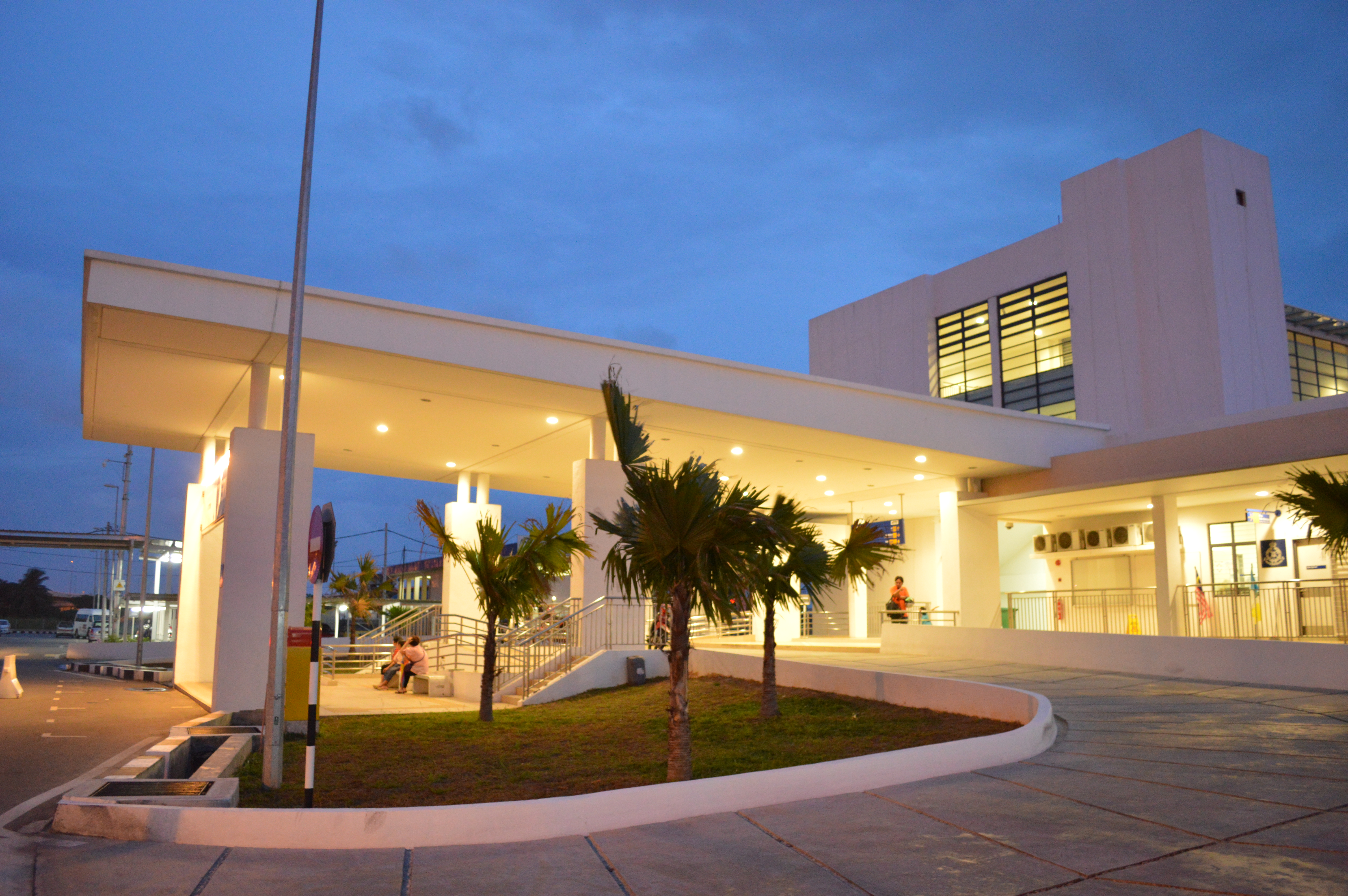 Porte cochere of the Butterworth Railway Station, Butterworth, Penang, Malaysia.